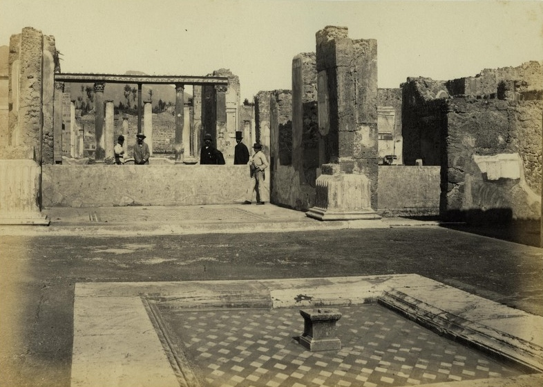 Giorgio Sommer (1834-1914), "House of the Faun - Pompeii". ca. 1900. ca. 1900. 2005.